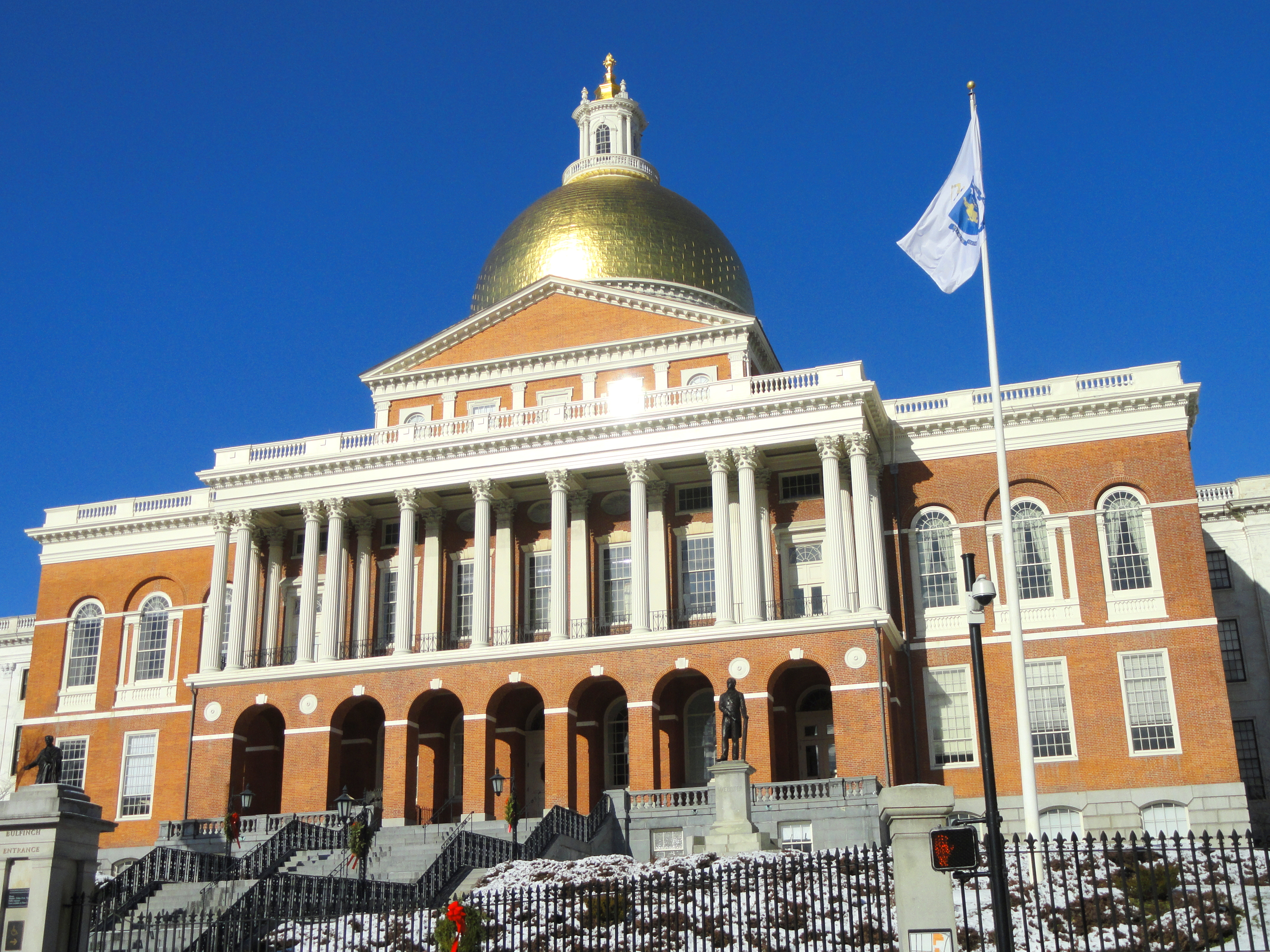 Massachusetts State House, Boston, Massachusetts, USA.